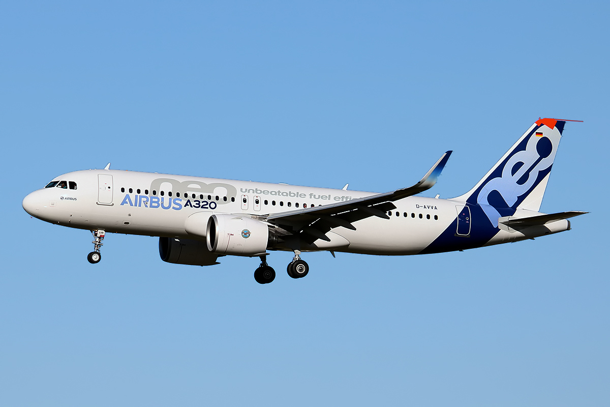 Aircraft: Airbus A320-271N Airline: Airbus Industrie Serial #: 6286